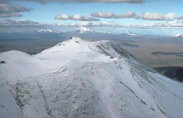 The peak of the volcano Maly Semyachik